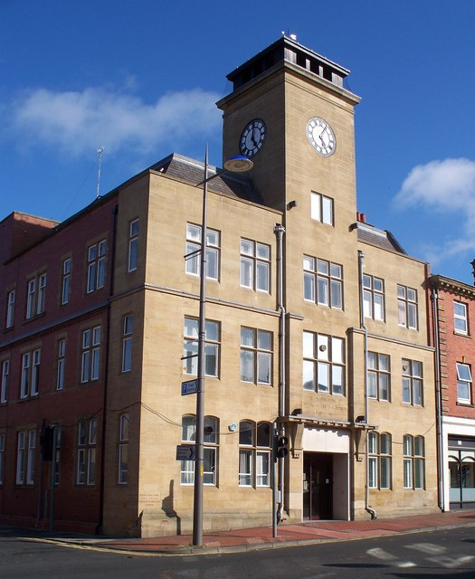 Ashington Town hall Ashington town Hall, no longer open to the public.